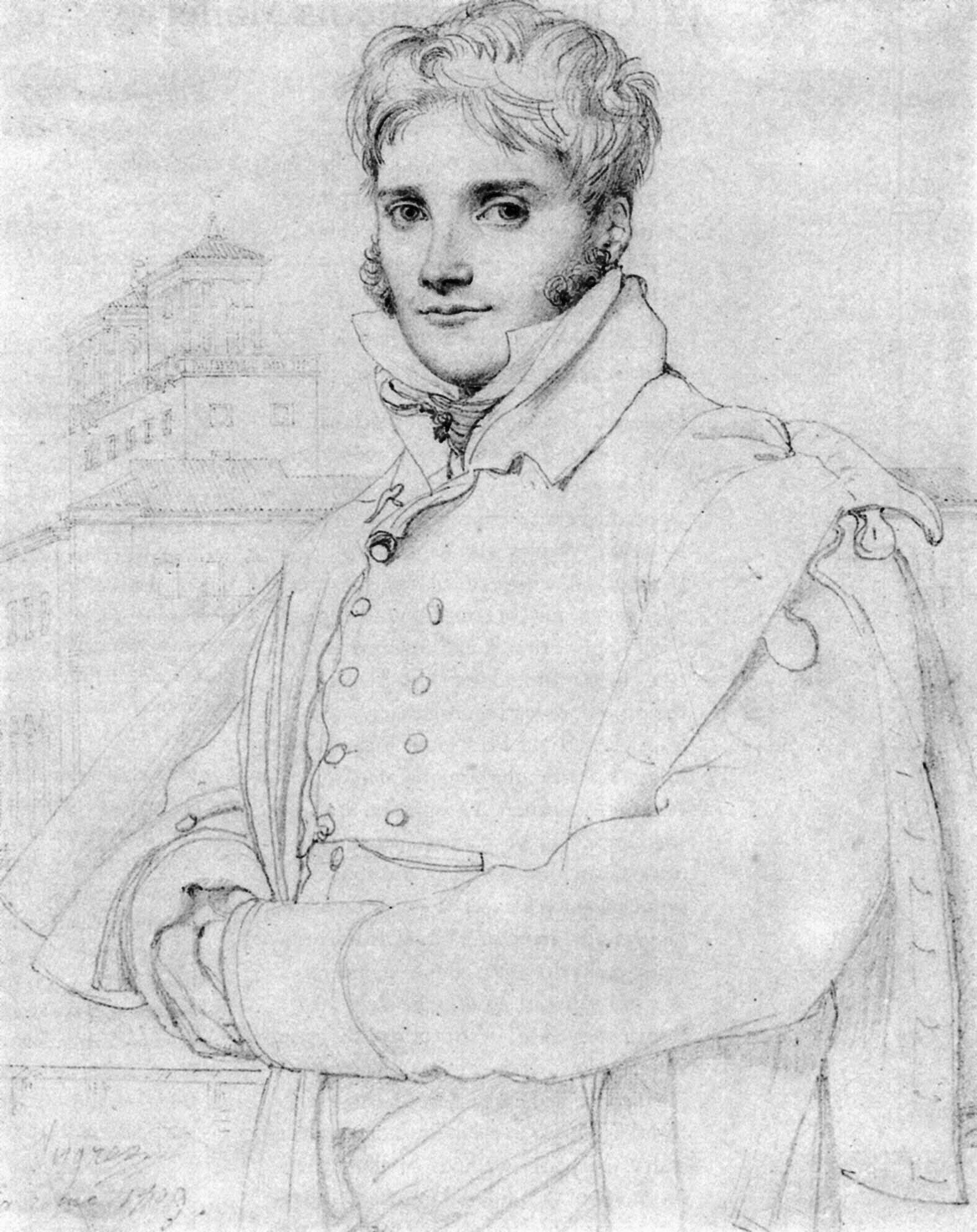 Portrait of the artist Merry-Joseph Blondel, done by Jean Auguste Dominique Ingres when the two of them were fellow Prix de Rome students at the Villa Medici in Rome in 1809